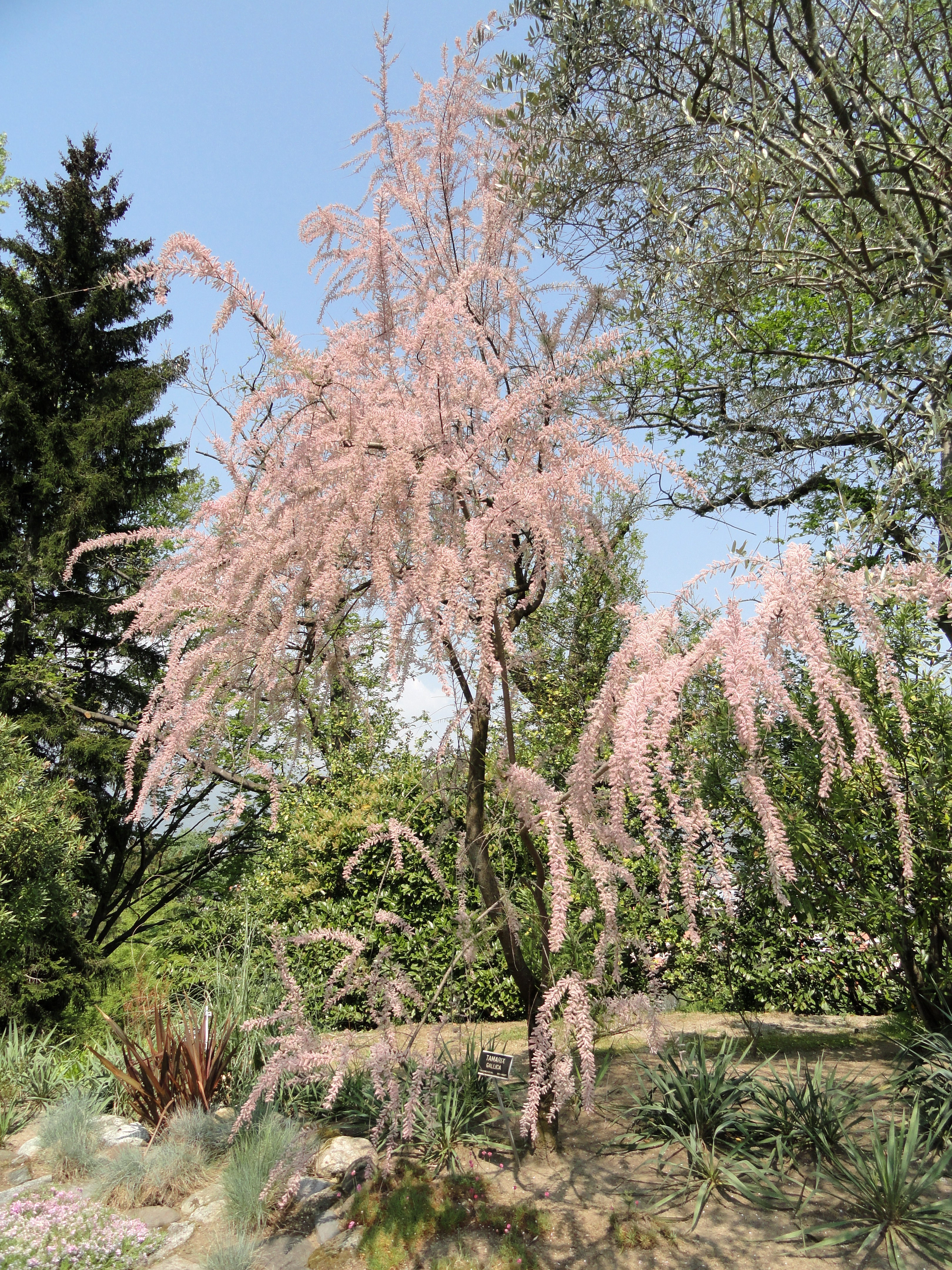 Tamarix gallica. Botanical specimen on the grounds of the Villa Taranto (Verbania), Lake Maggiore, Italy.